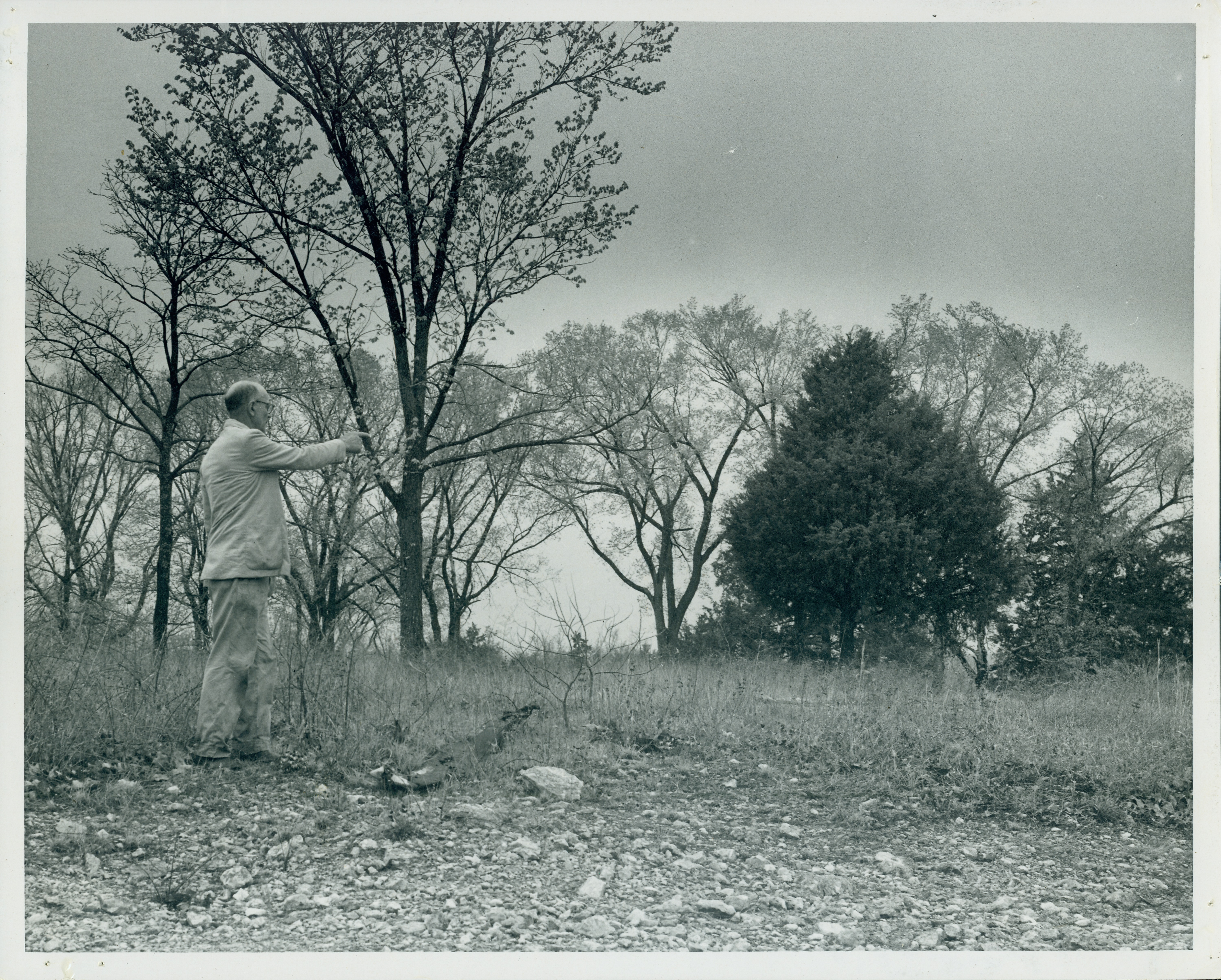 Site of Fort Wyman in Rolla, Missouri. Photograph by unknown, 1958. Missouri History Museum Photograph and Prints collection. Civil War. P0084-2461.